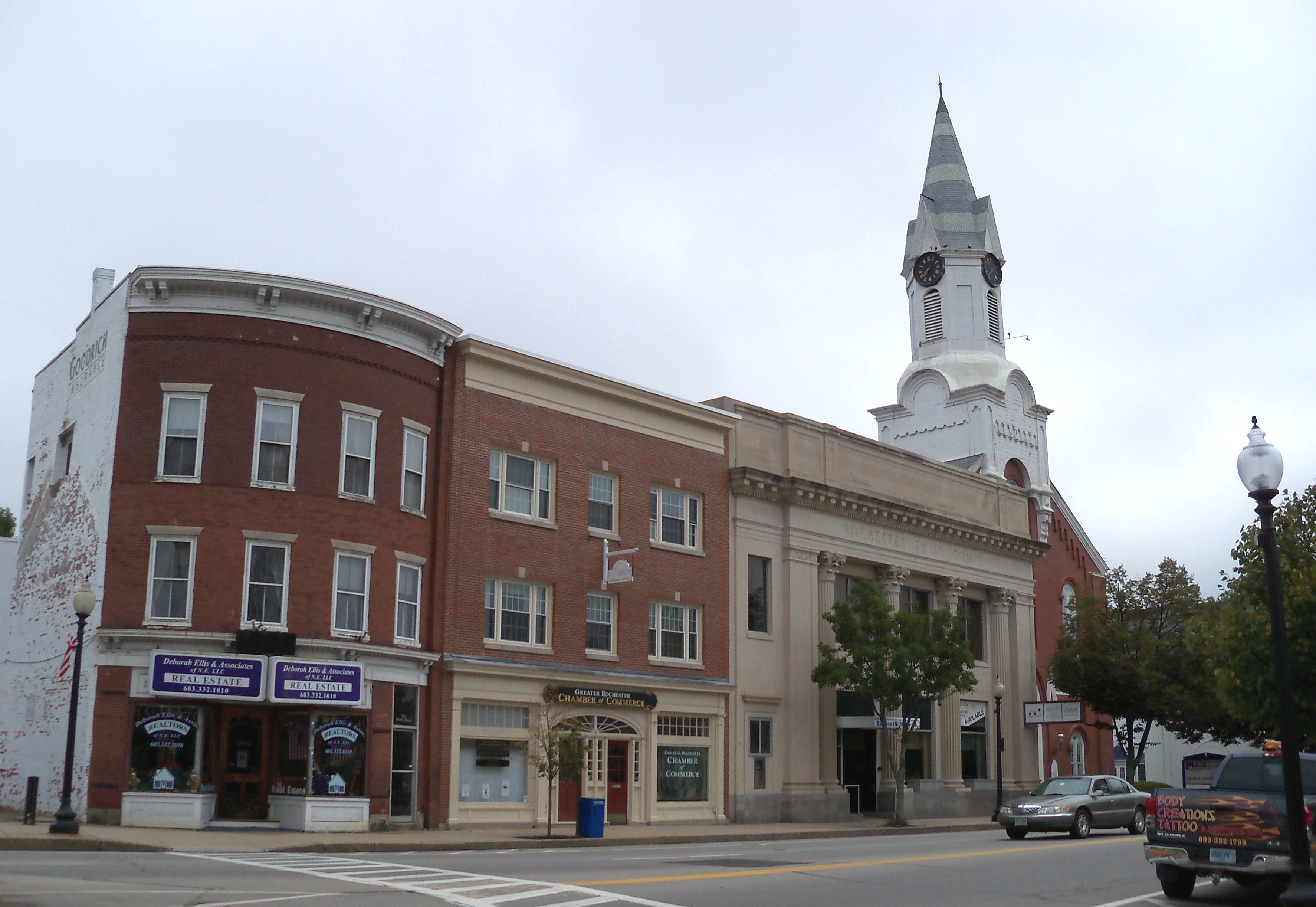 Buildings in downtown Rochester, New Hampshire, USA.